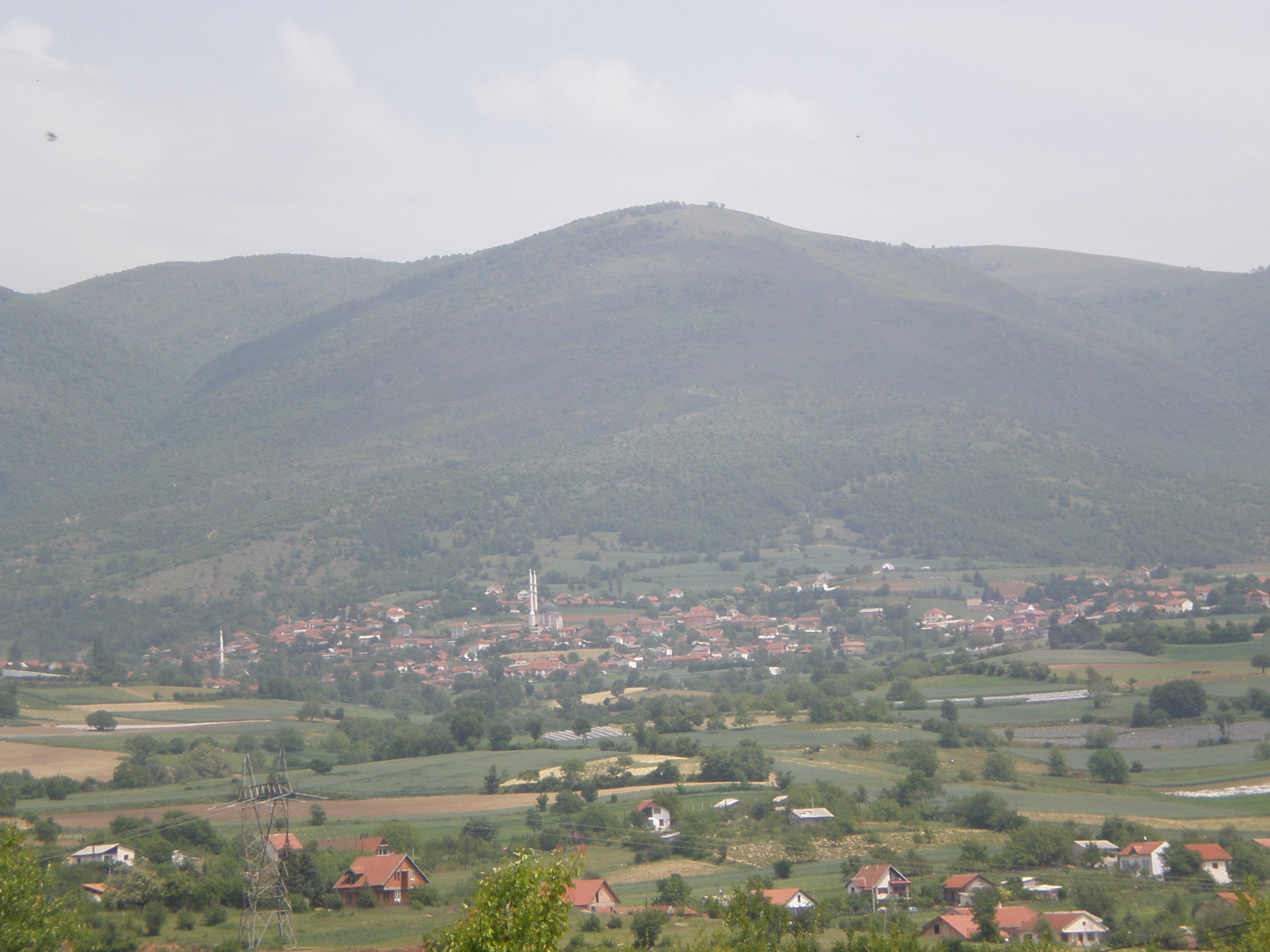 Village of Ljuboten near Skopje, Macedonia